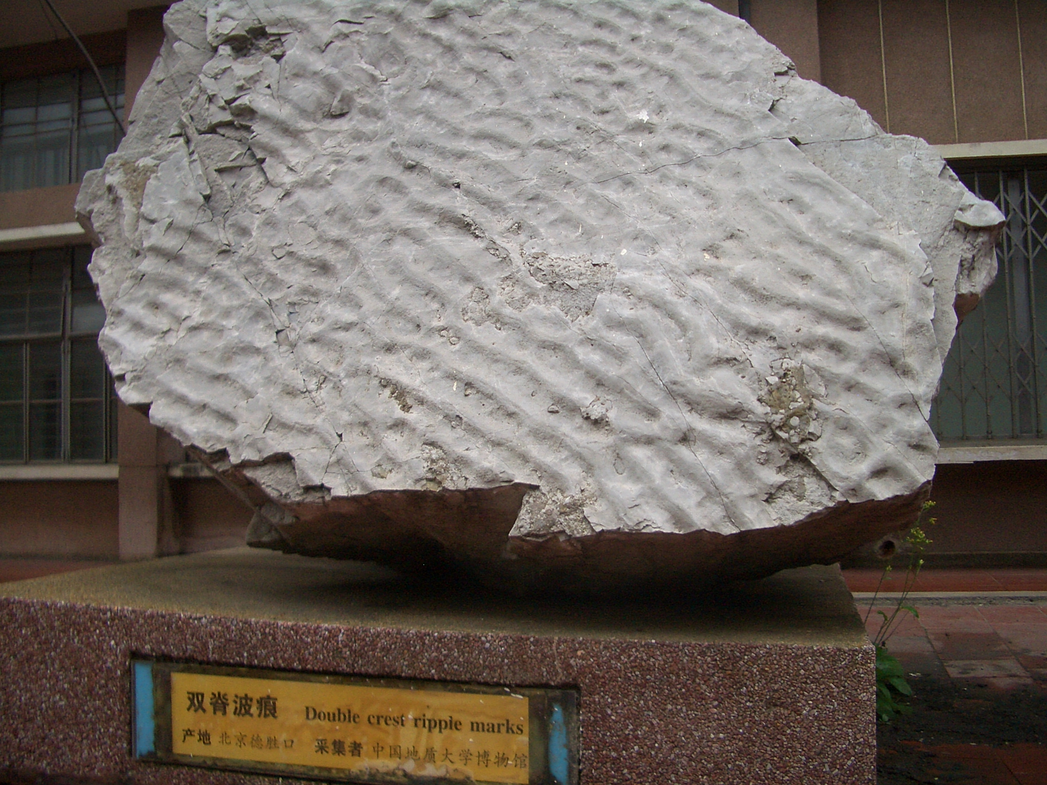 China Universities of Geosciences, Wuhan